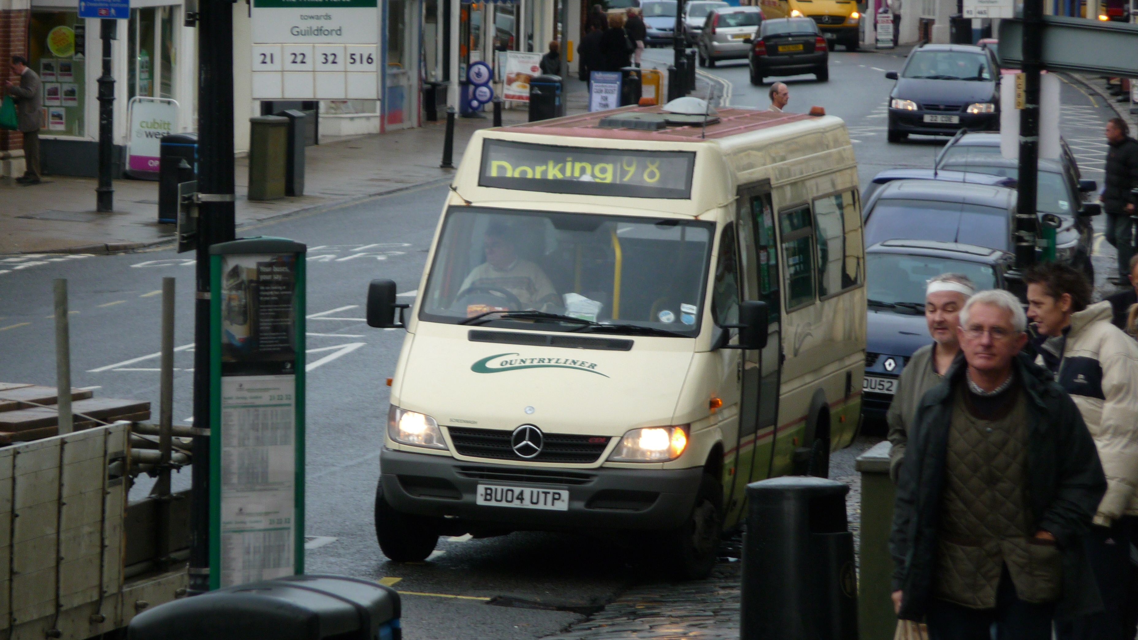 Countryliner BU04 UTP, a Mercedes-Benz Sprinter minibus, in Dorking High Street, Dorking, Surrey, on route 98. This vehicle was new to Tellings-Golden Miller for TfL London Buses route R8, which needs small vehicles due to narrow lanes on the route, although when Metrobus took over the contract they used bigger Optare Solos on the route - as Opatre had just brought a new all-time small version of the type out. As can be seen, the bus carries a red roof still.